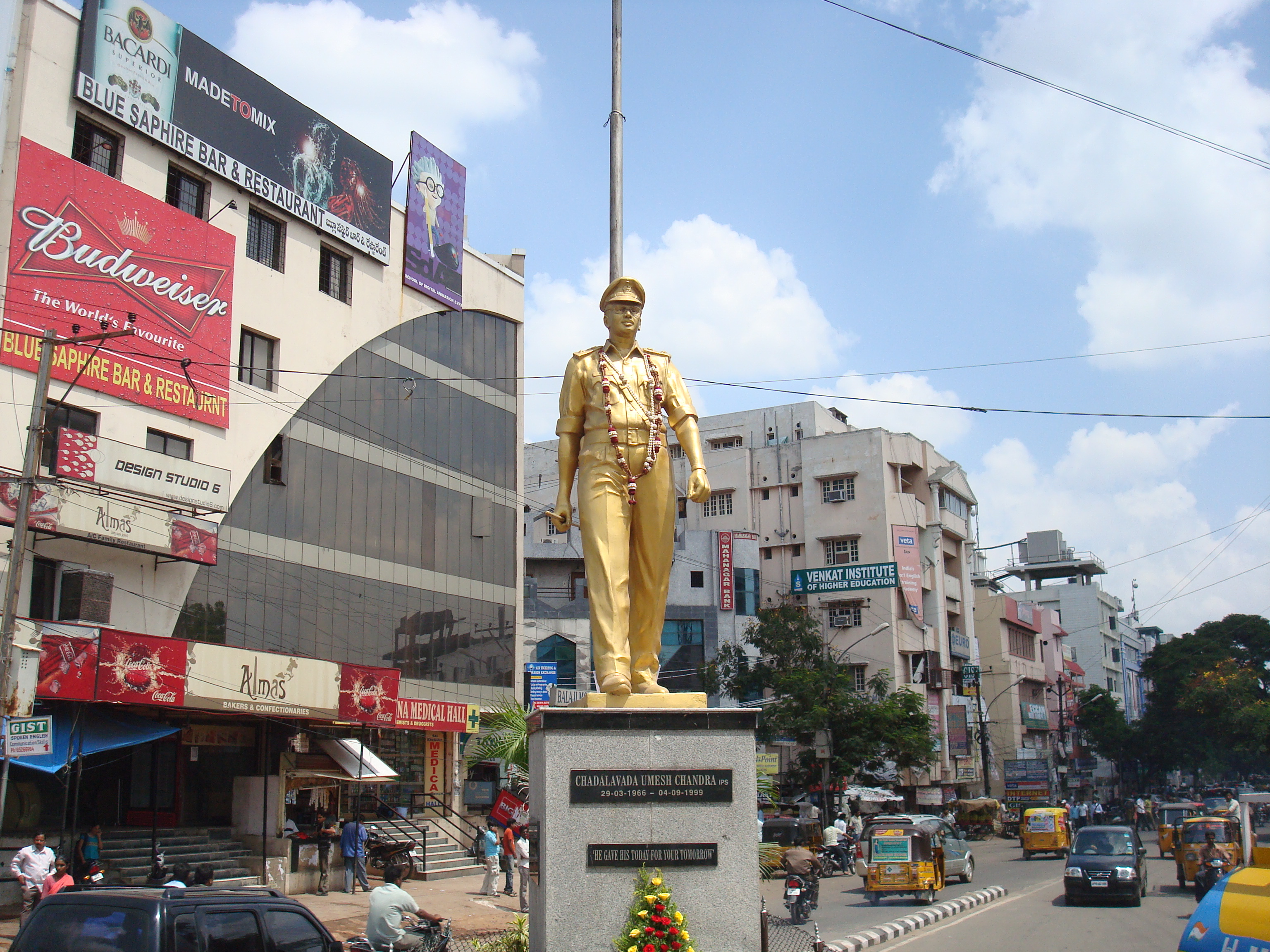 Shown here is a well known statue of Umesh Chandra at SRnagar, Hyderabad, India.